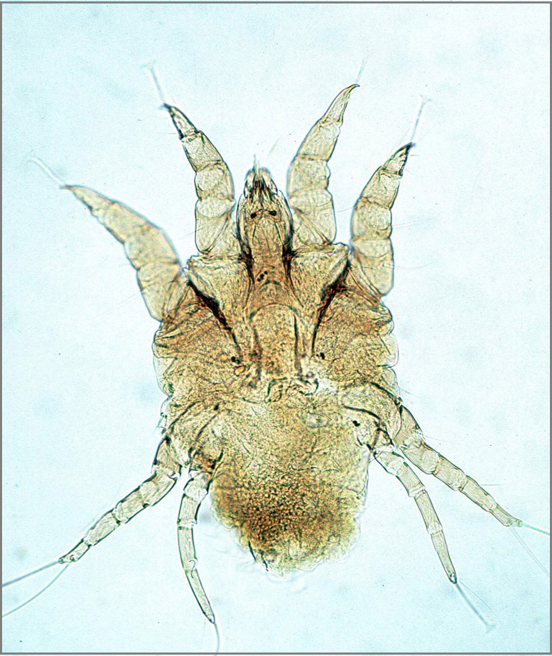 Parasitic mite of domestic animals